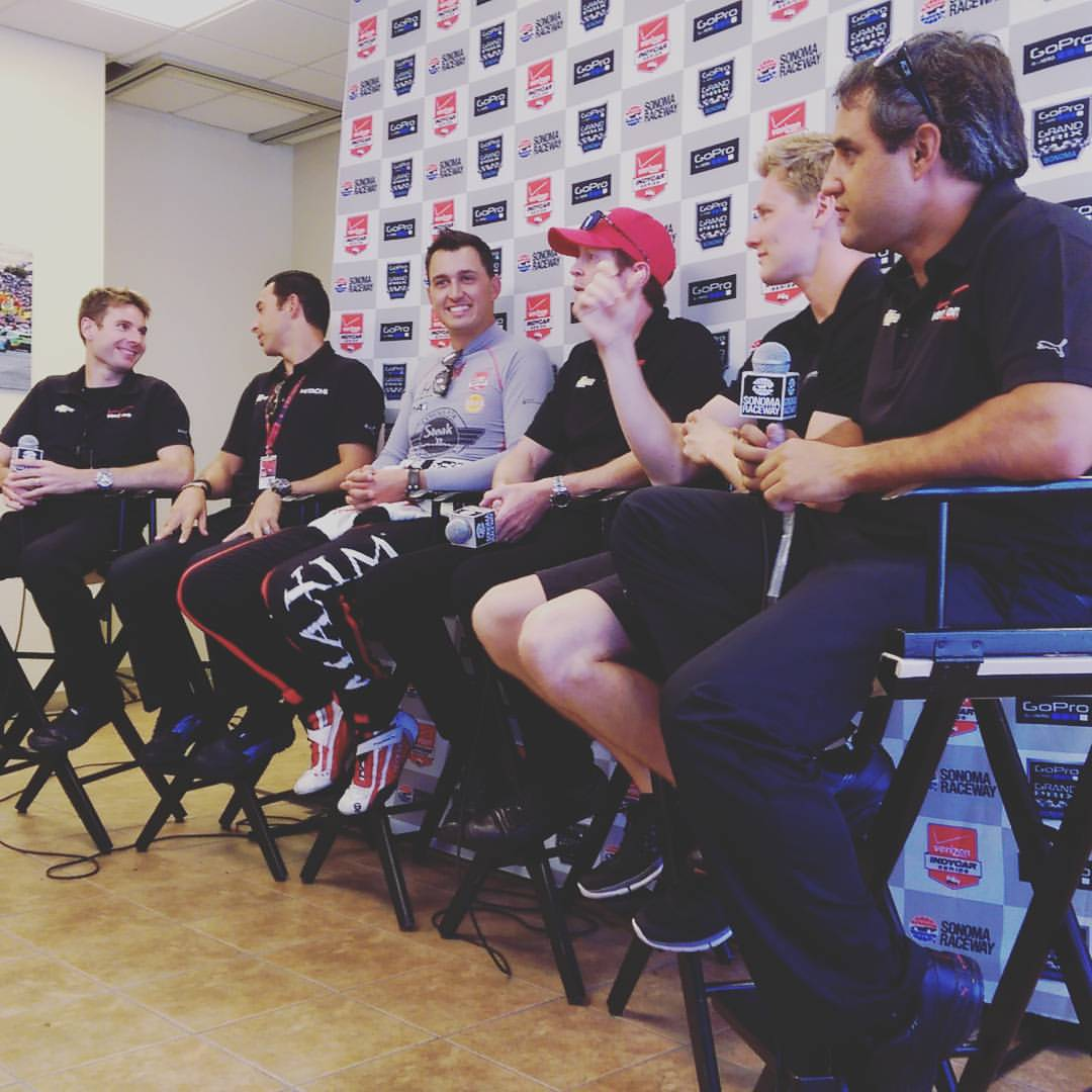 The top five contenders for the cup at the 2015 GoPro Grand Prix of Sonoma. Left to right: Will Power, Helio Castroneves, Graham Rahal, Scott Dixon, Josef Newgarden, and Juan Pablo Montoya.